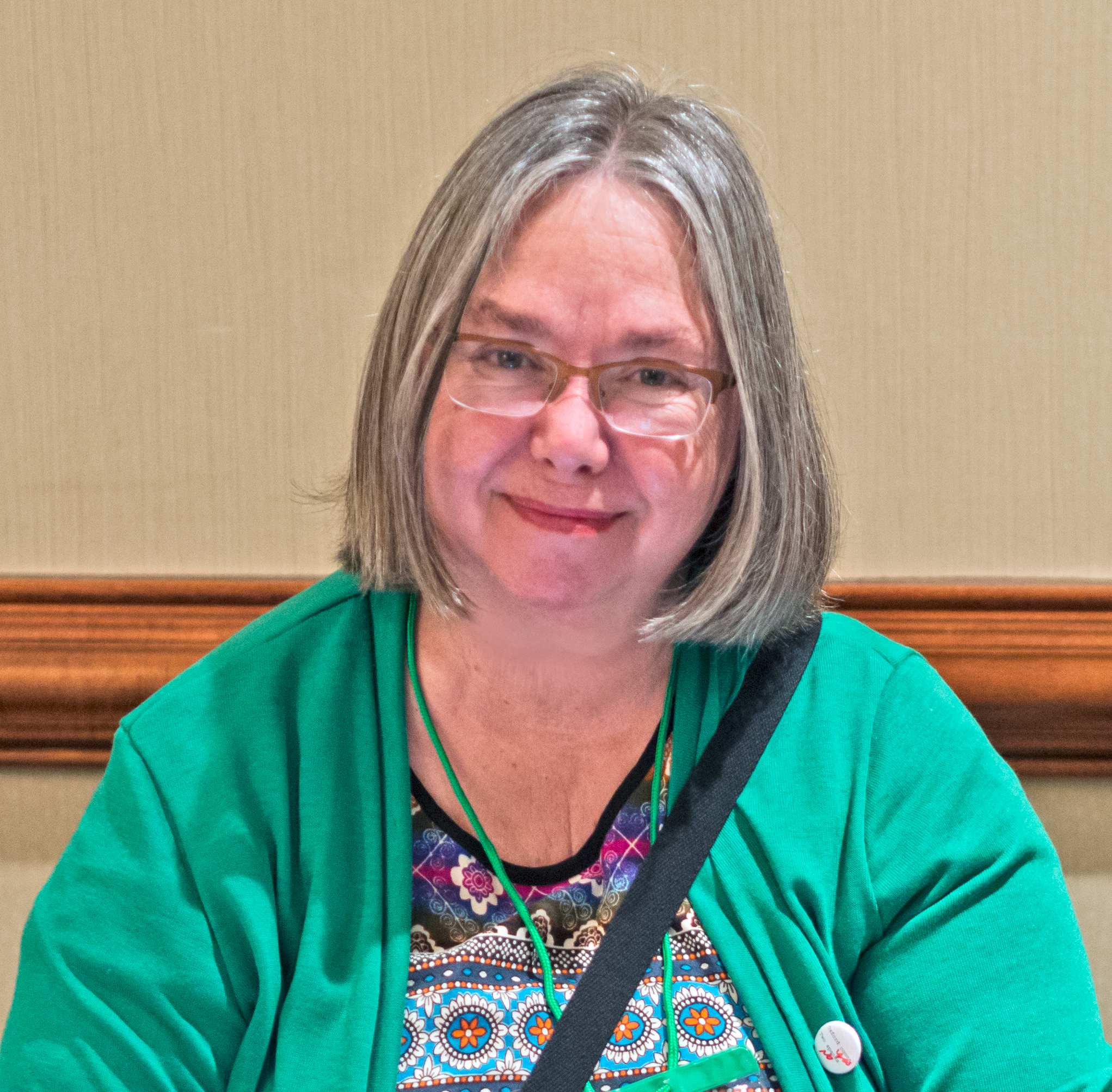 Head-and shoulders shot of Beth meacham, an executive editor at Tor books, at the Fourth Street Fantasy Convention in Minneapolis, MN in 2016.